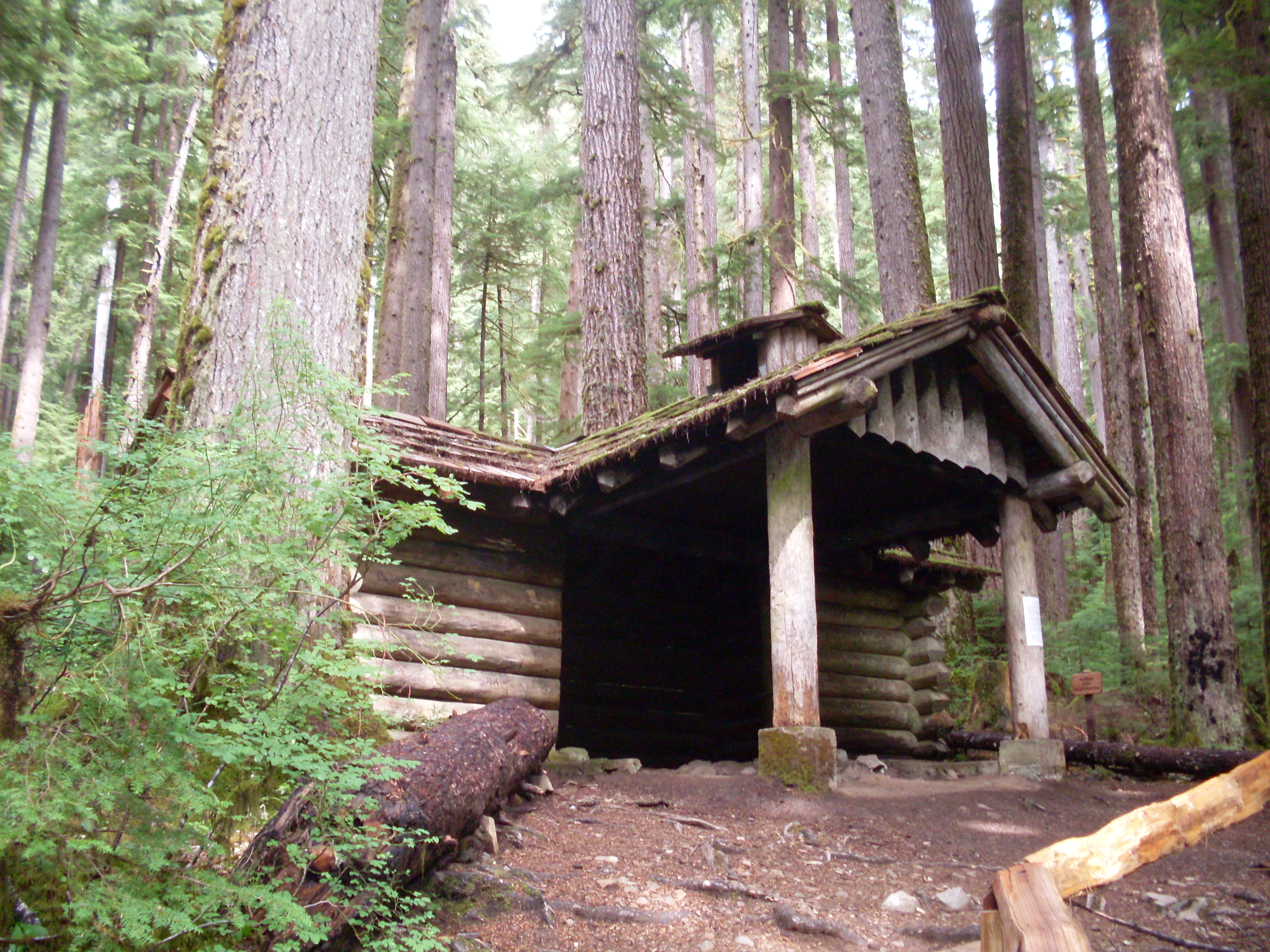 Canyon Creek Shelter (Sol Duc Falls Shelter), Olympic National Park, Washington, United States, August 2008 Source is self-taken photo